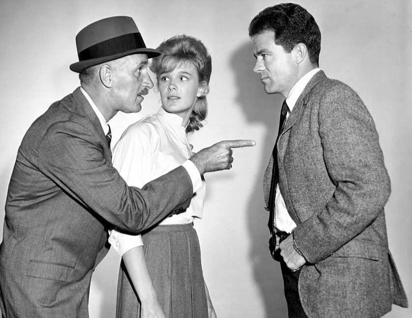 Photo of Keenan Wynn as an angry father who believes Dr. Paul Graham (Jack Ging) is interfering in his family's affairs. Linda Evans plays Wynn's daughter in the episode.